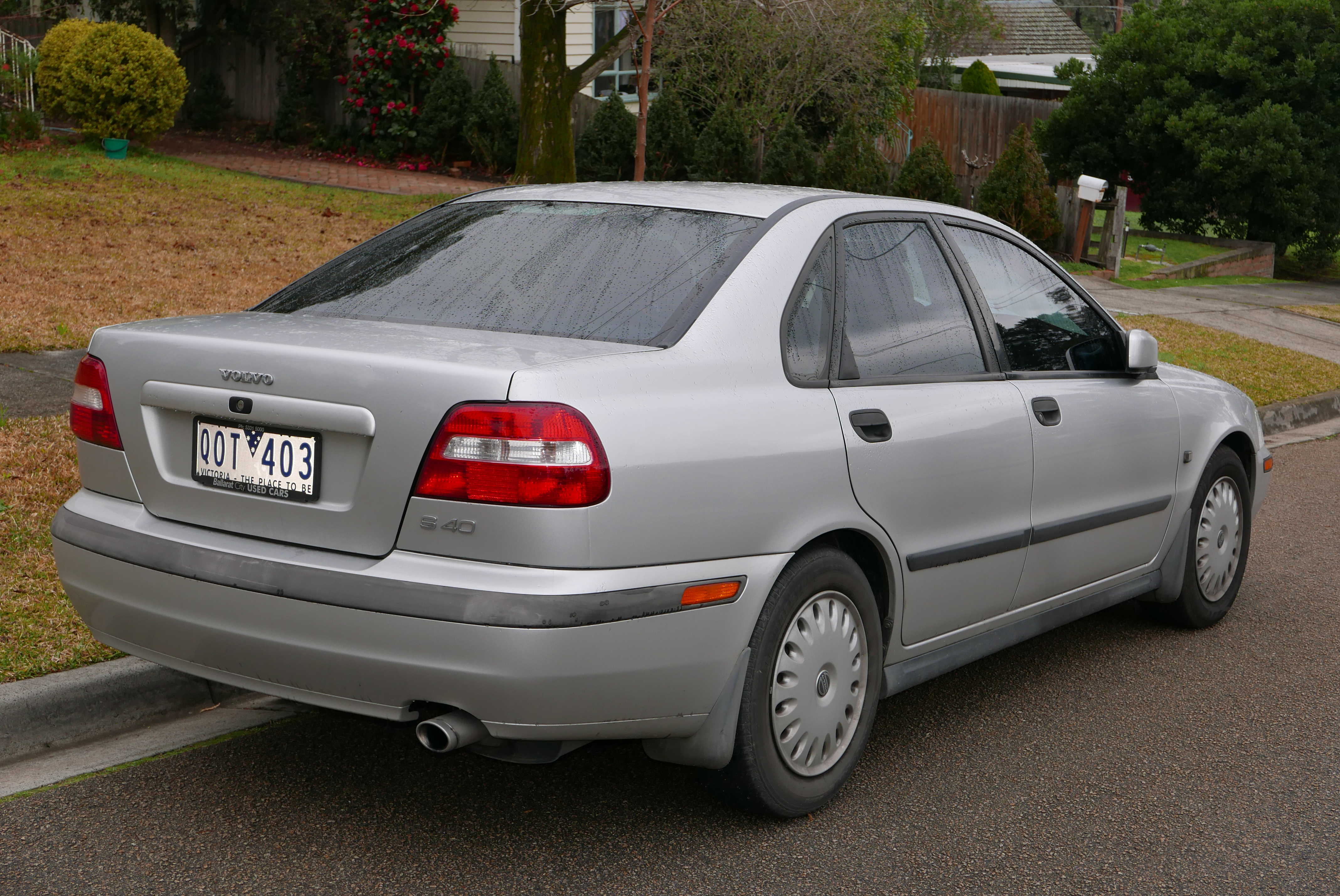 2000 Volvo S40 (MY01) 1.8 sedan. Photographed in Doncaster East, Victoria, Australia. Vehicle registration enquiry results Jurisdiction Victoria Registration QOT403 Chassis code YV1VS14K91F644840 Engine code B4182220944 Compliance date 2000-11 Year of manufacture 2000